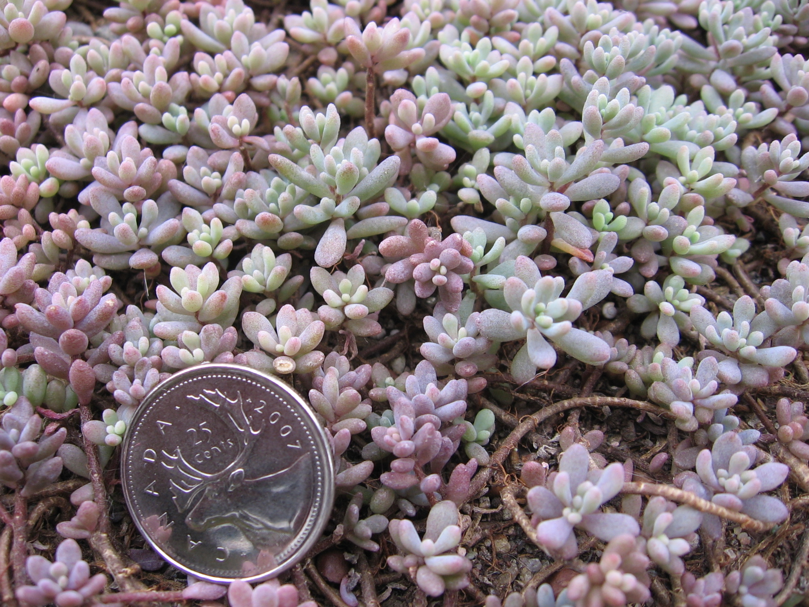 White stonecrop, Sedum album, with quarter (23.88 mm) for scale, Jardin botanique de Montréal.